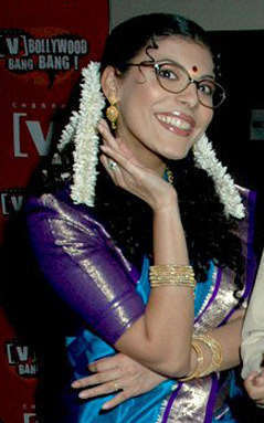 Anuradha Menon (as her alter-ego Lola Kutty) at Channel V's launch of India's first live film